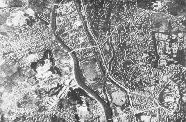 Ground Zero at Nagasaki - before bombing.